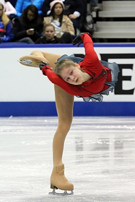 Yuliya Lipnitsкaya at the Sкate Canada 2013